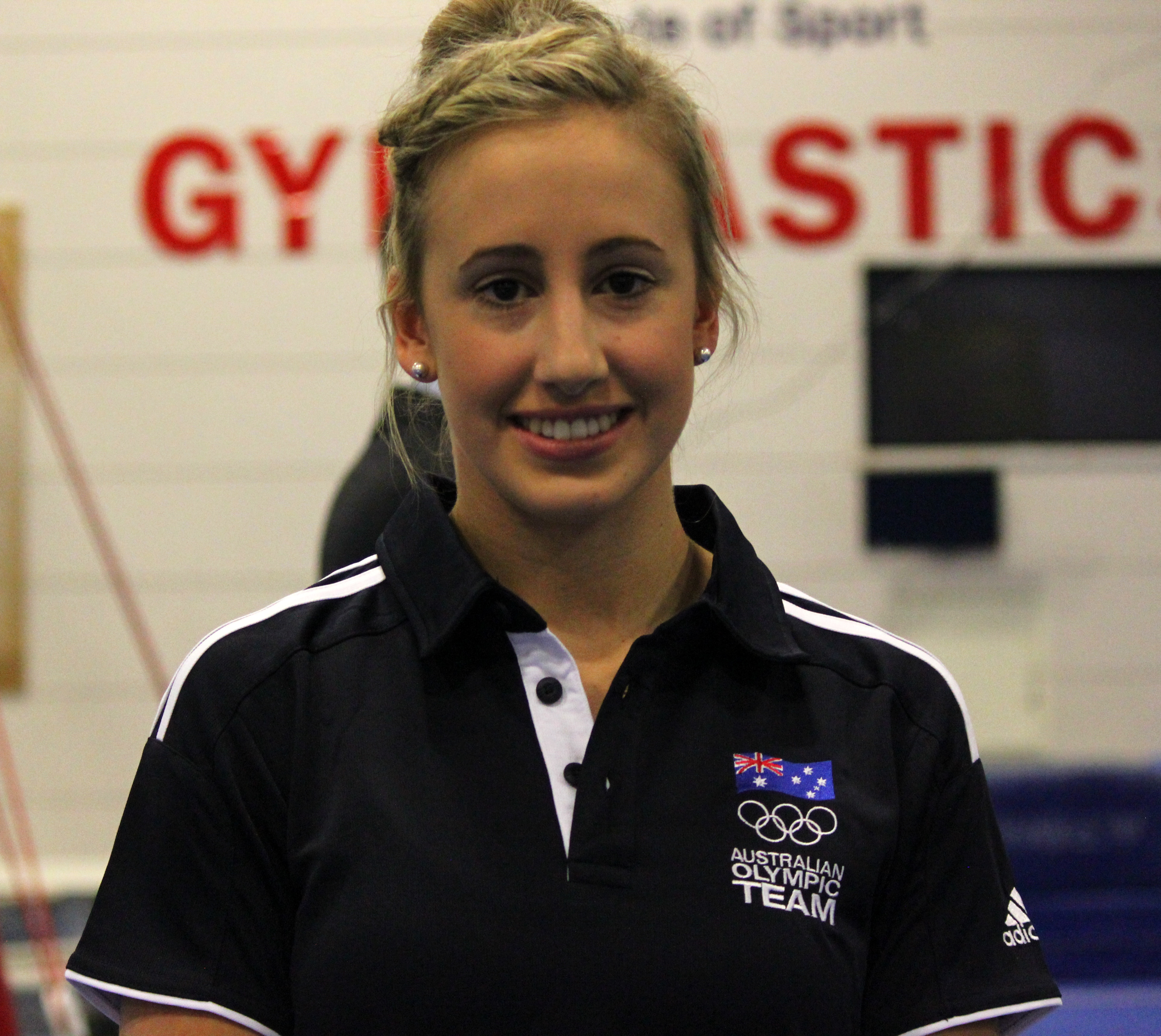 A close-up head shot of Ashleigh Brennan